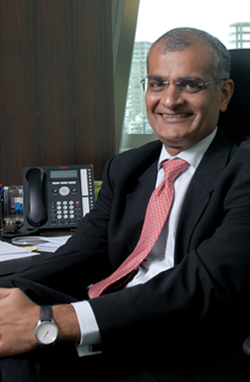 Rashesh Shah is the Chairman and Chief Executive Officer (CEO) of the Edelweiss Group, one of India's leading diversified financial services conglomerates.